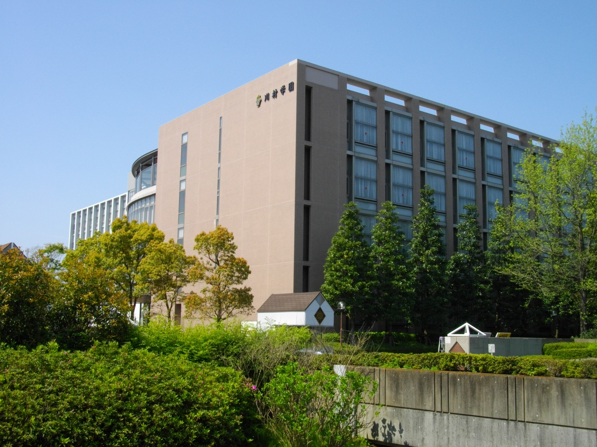 Kawamura Gakuen Woman's University